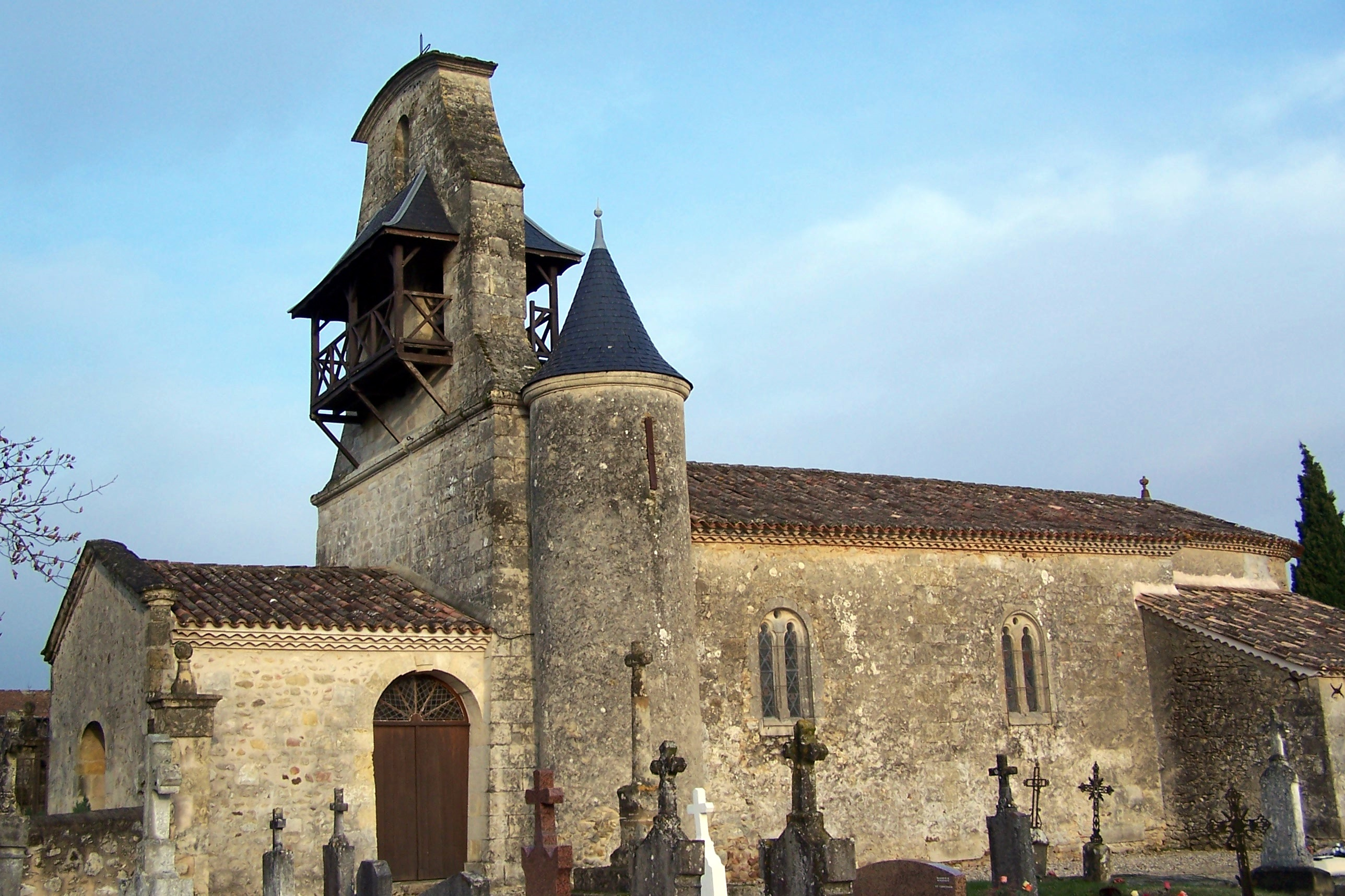 Church of Brouqueyran (Gironde, France)